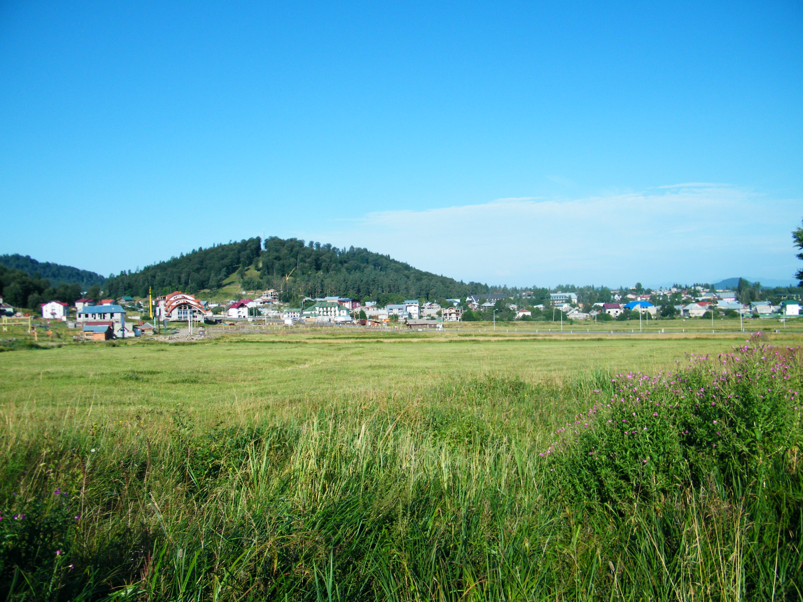 Bakuriani - august, 2011